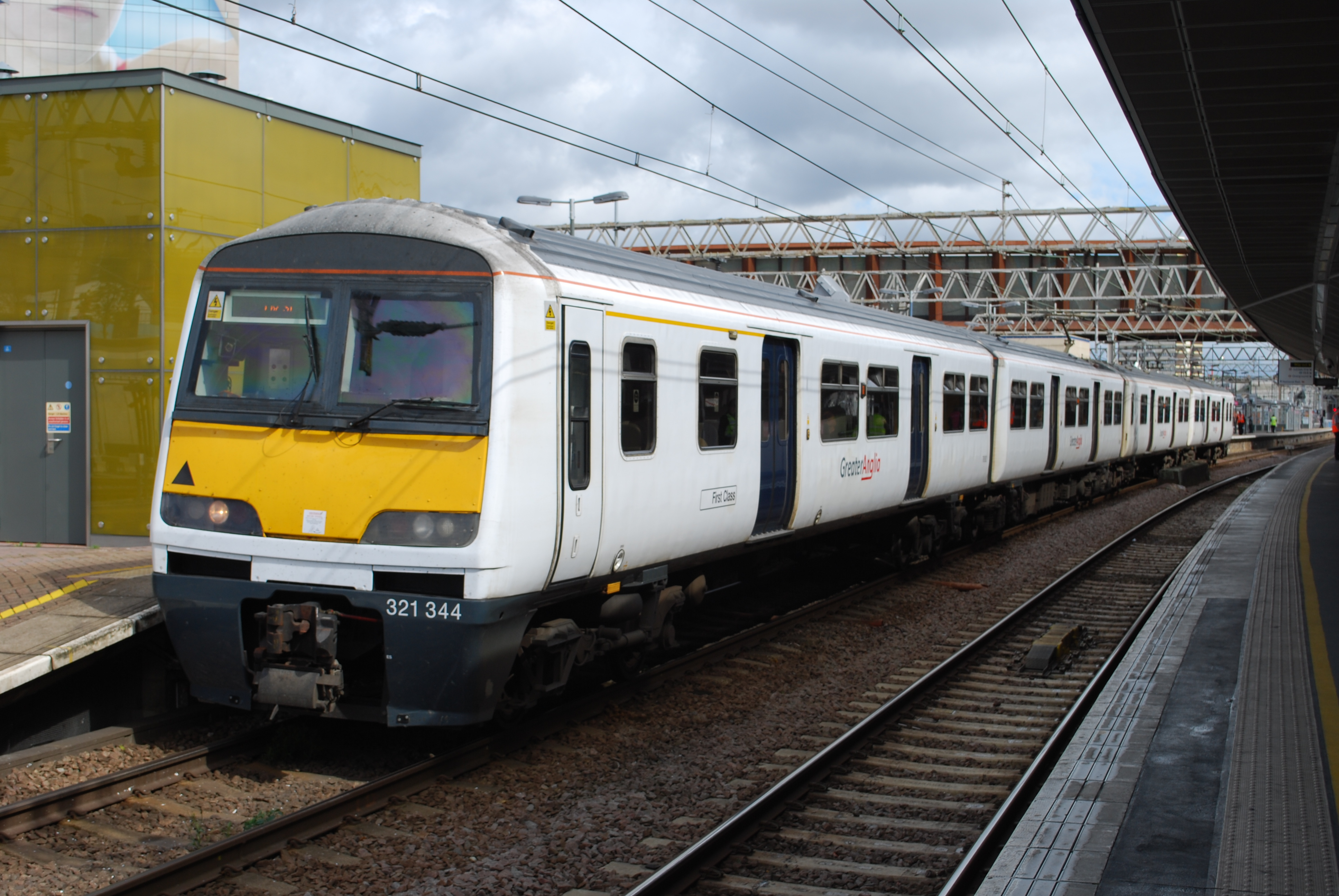 BREL (York) Class 321/3 Standard Mk.III 25k v ac overhead 4-car emu No.321 344 of Greater Anglia recently repainted in their livery at Stratford, 08/12.